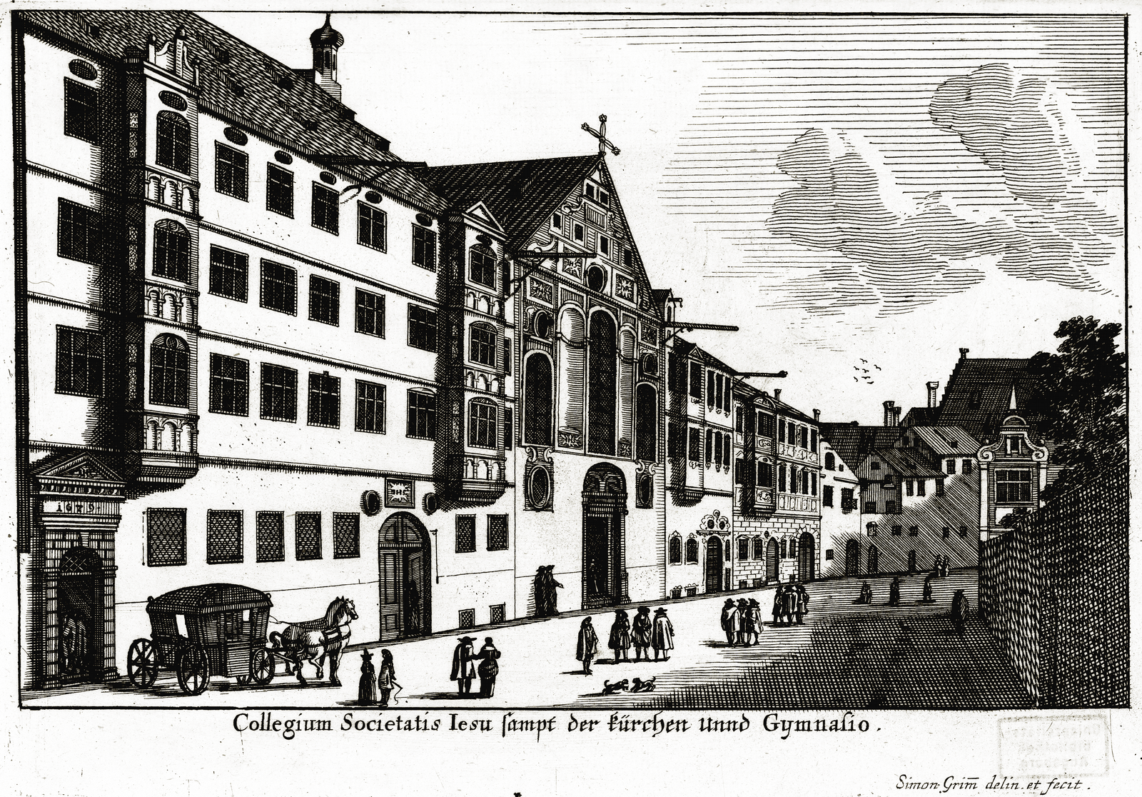 Augsburg, Germany, Society of Jesus, Collegium with church and school